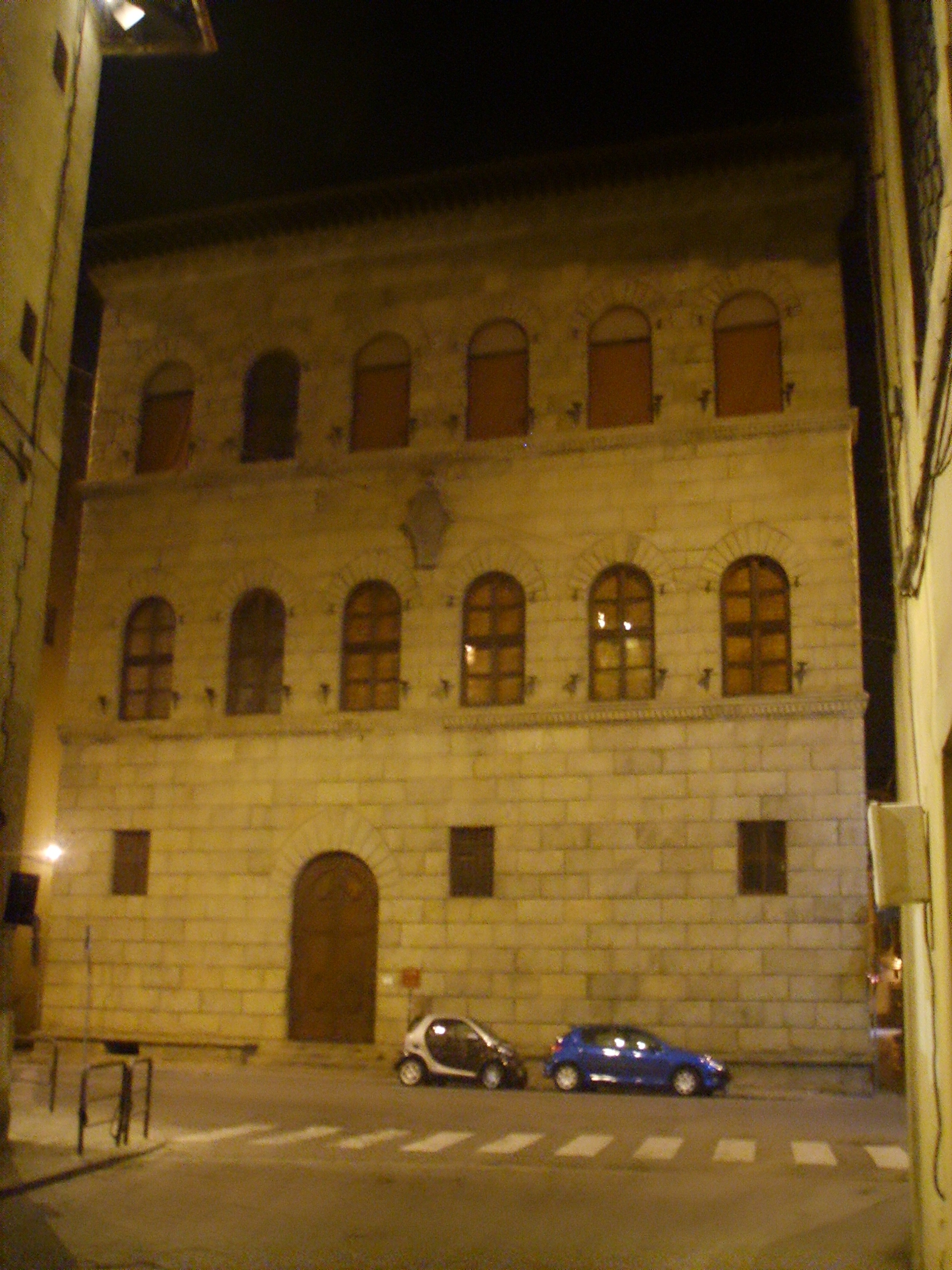 Palazzo Antinori, in Florence (Italy), by night.